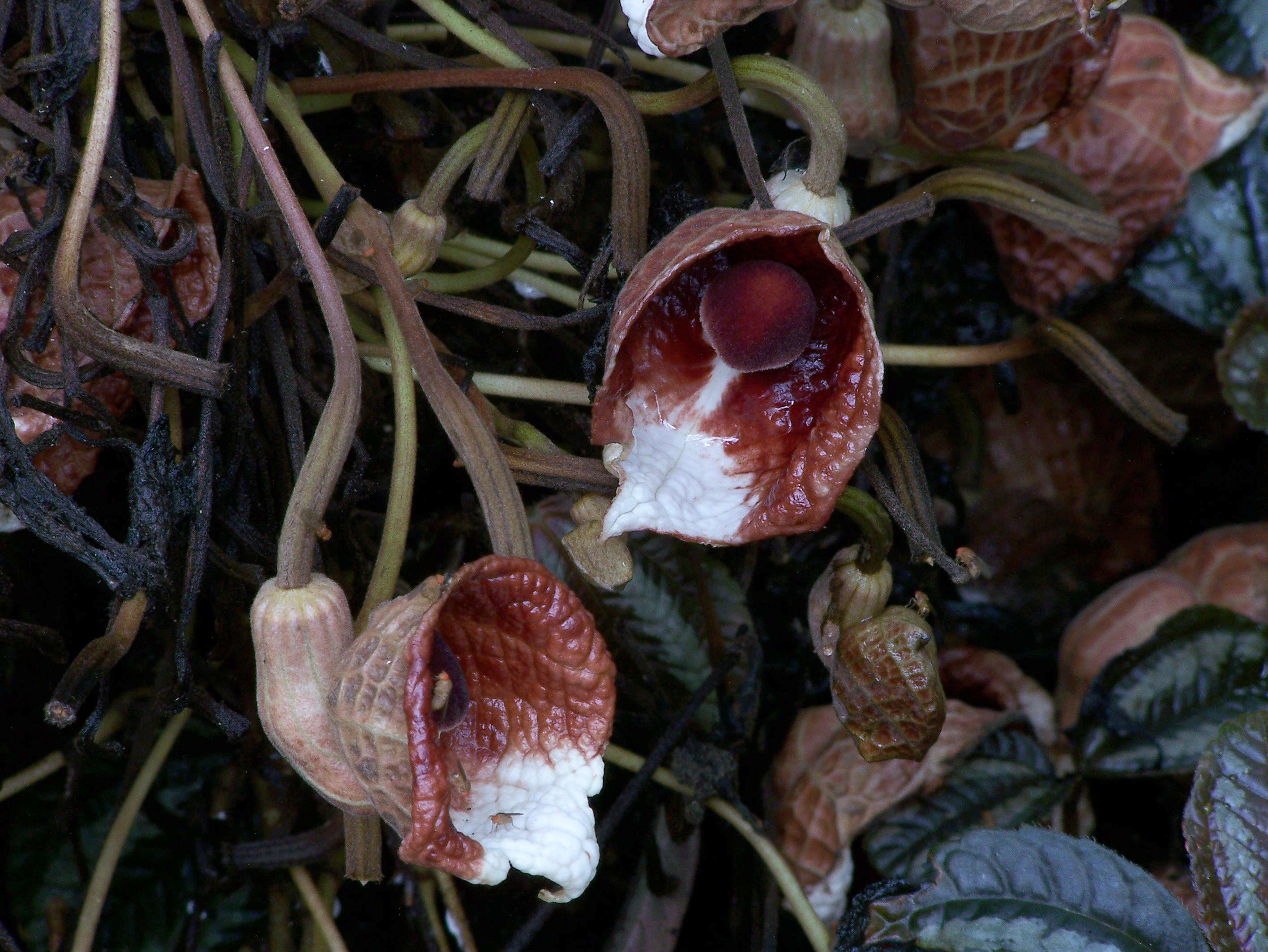 Aristolochia arborea Origin: The mother specimen is of Colombia stock.